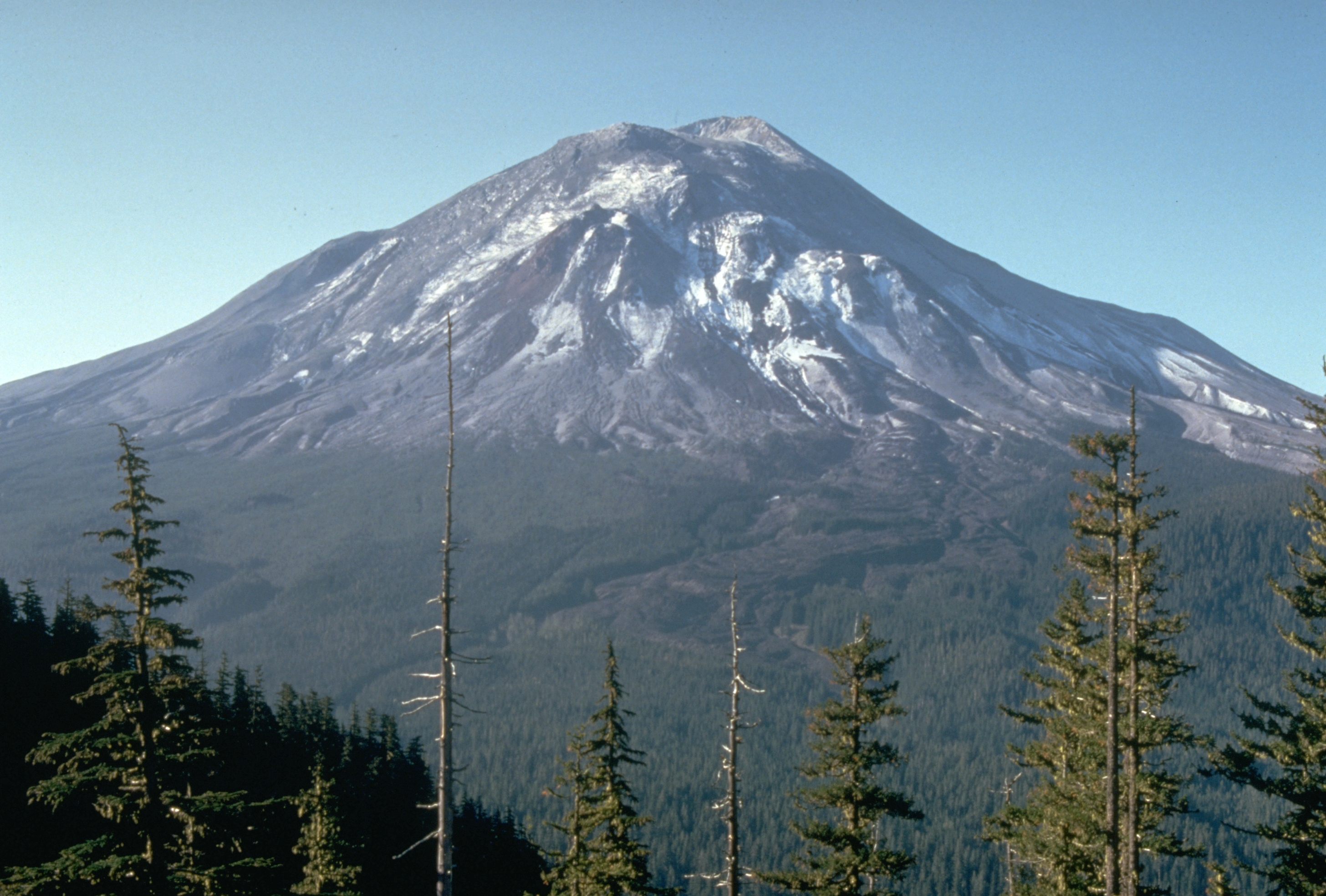 This slide shows Mount St. Helens, one day before the devastating eruption. The view is from Johnston Ridge, six miles (10 kilometers) northwest of the volcano.